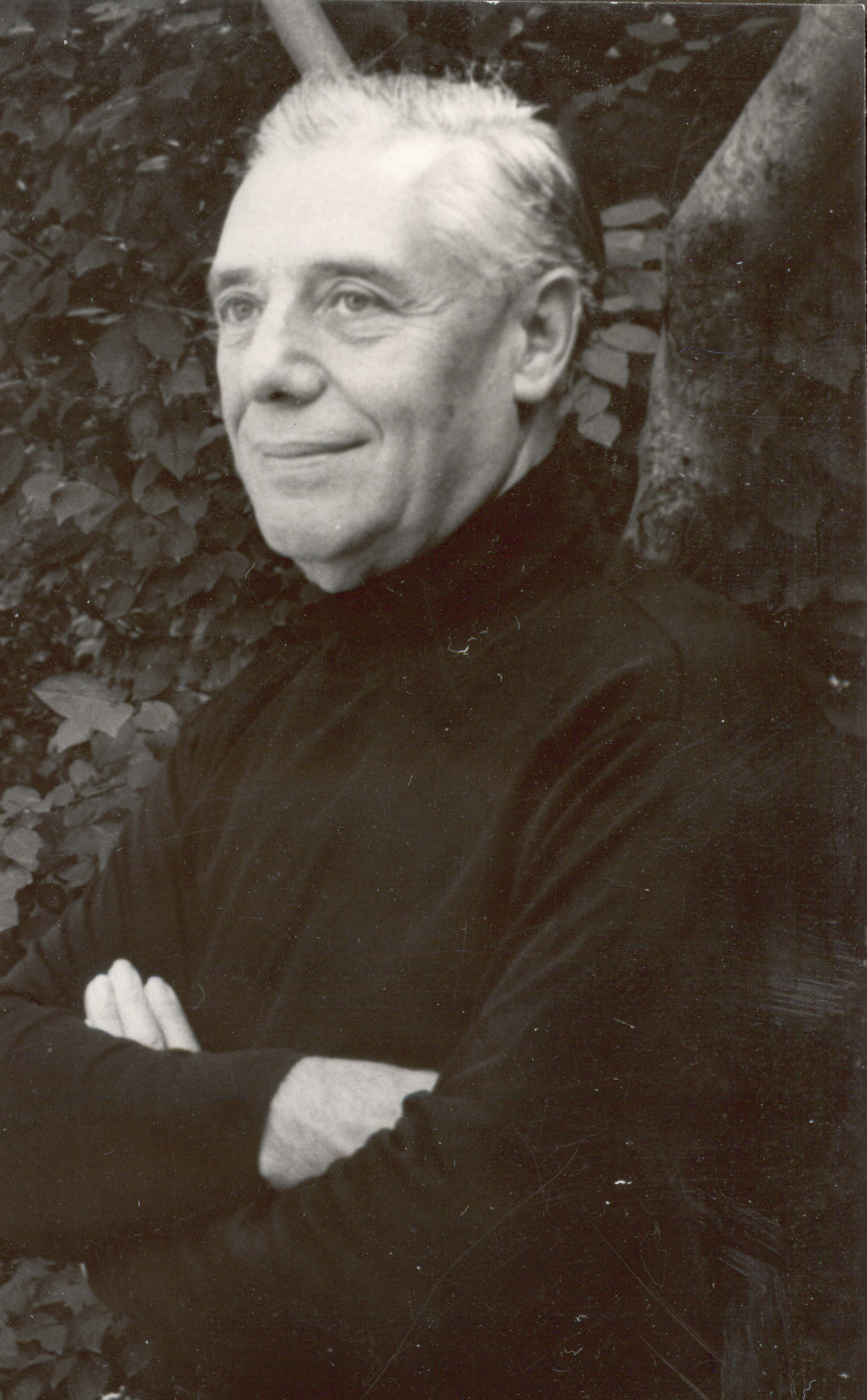 George Ivascu